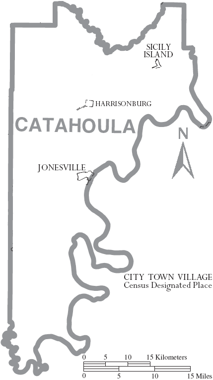 Map of Catahoula Parish, Louisiana, United States with municipal boundaries